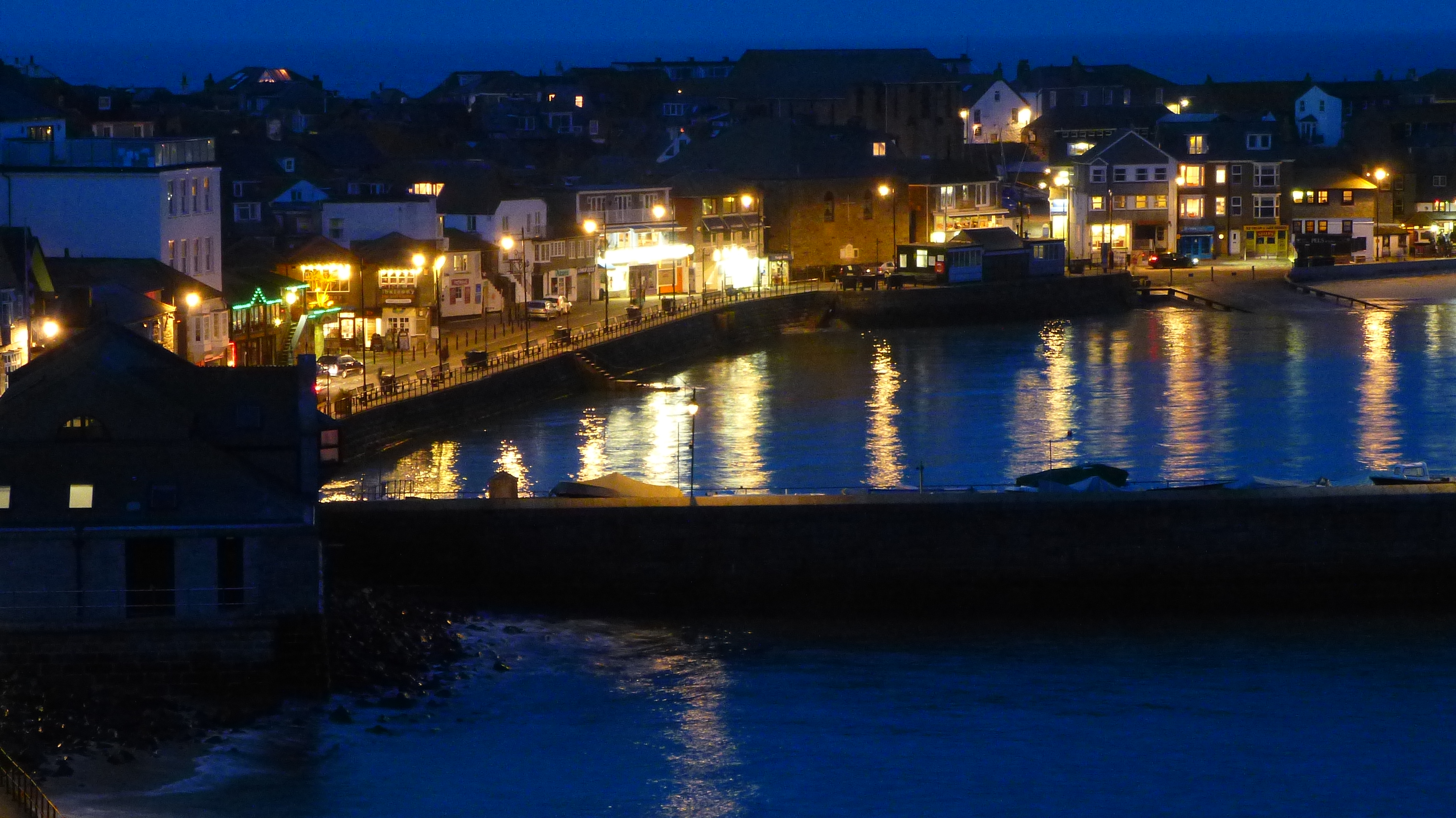 Harbour Front. ~ twilight